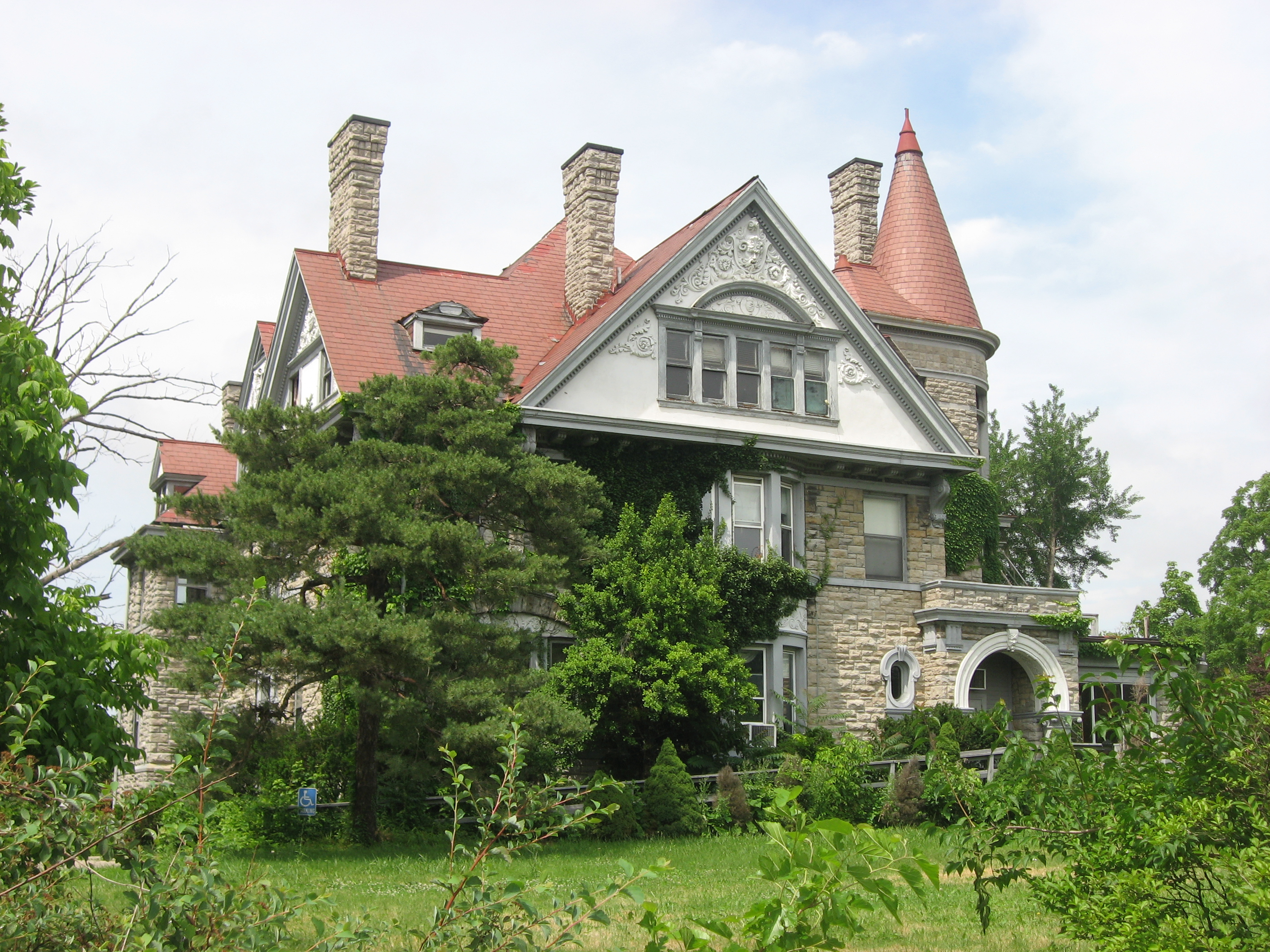 Front of the A. E. Burckhardt House, located at 400 Forest Avenue in Cincinnati, Ohio, United States. Built in 1887, it is listed on the National Register of Historic Places.